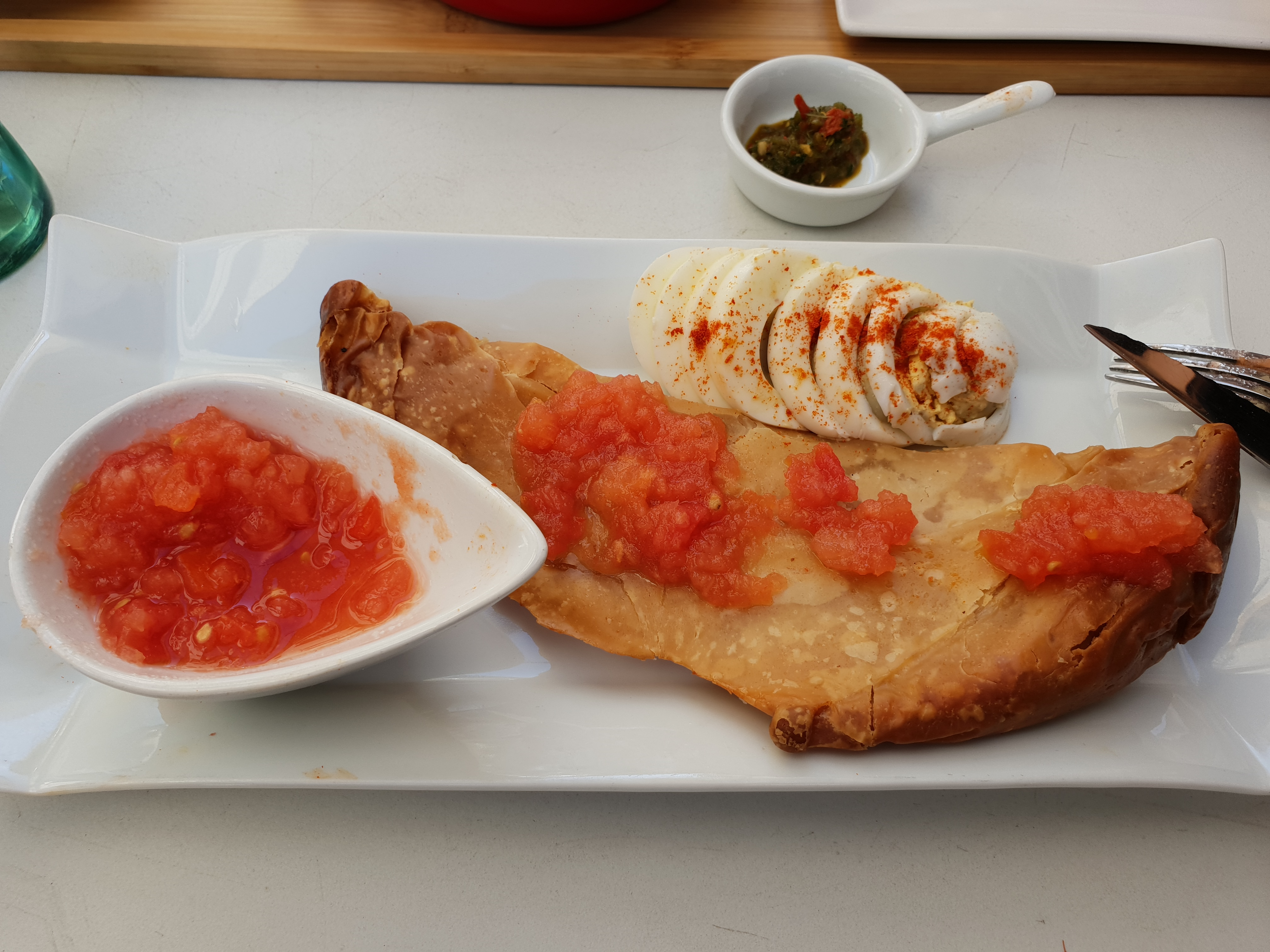 Jachnun